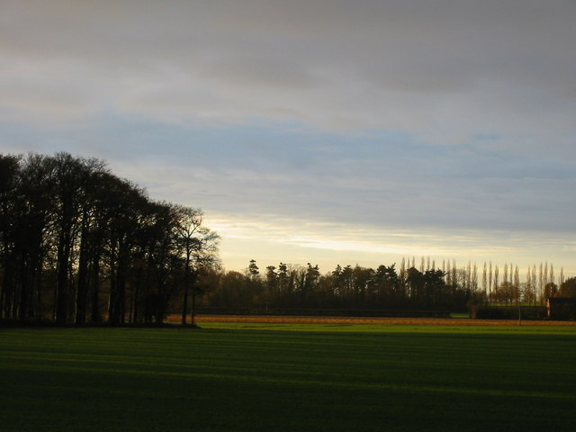 Early morning sunlight over fields This pictures shows fields with the trees surrounding Wymondham College in the background.